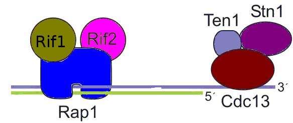 Schematics of the TEBP in yeast (CTS complex)